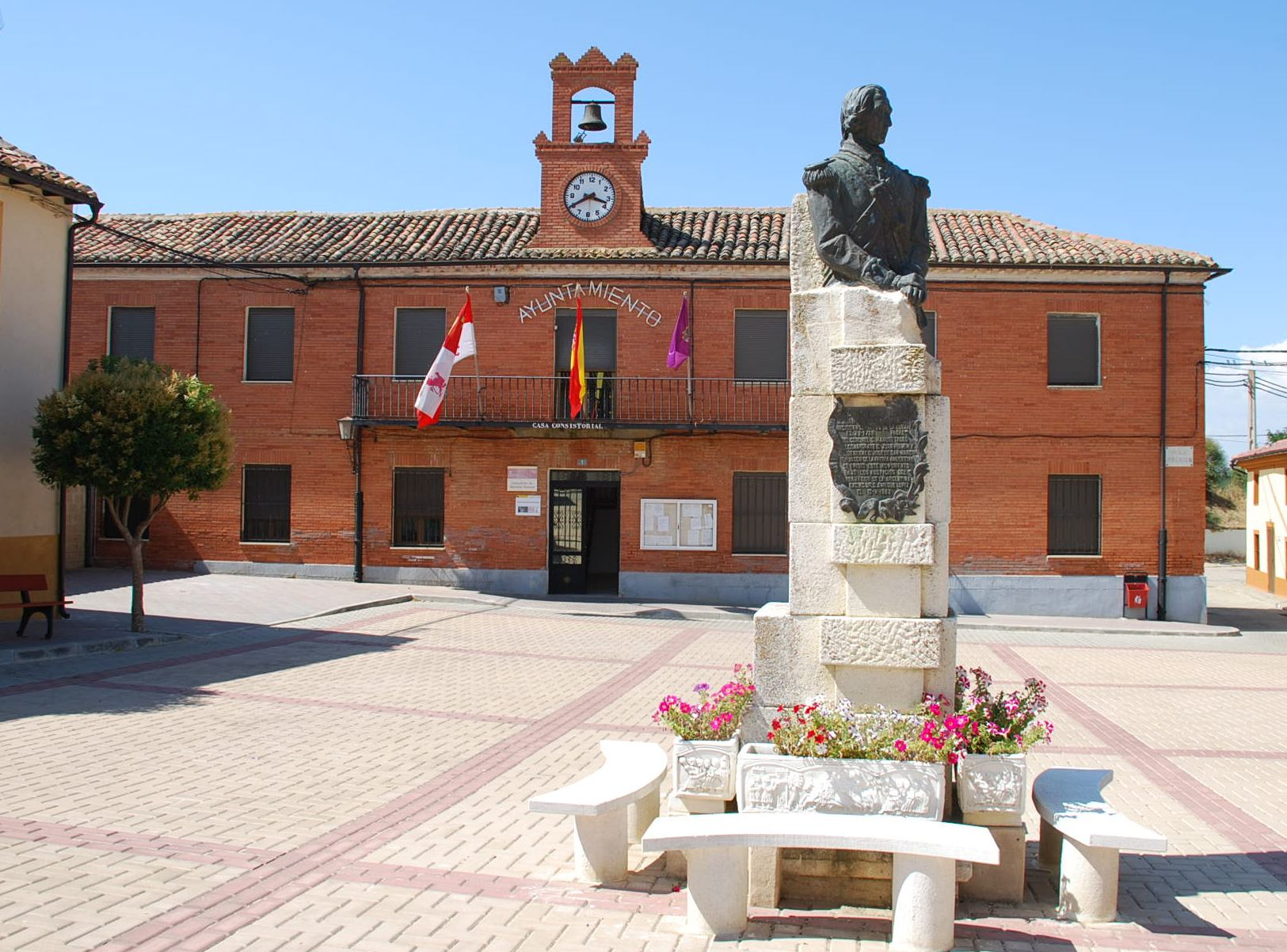 Town hall of Cervatos de la Cueza (Palencia, Castile and León). In front of it the statue of Juan de San Martín, father of José de San Martín.